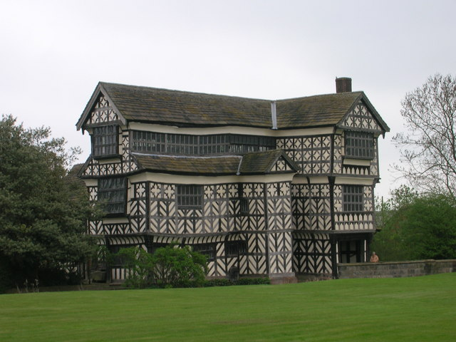 Little Moreton Hall A fine example of a moated Tudor house, with not a straight line in sight (inside or out)